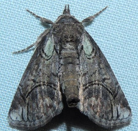 5/14/13 Franklin County Photo and ID thanks to Jack Foreman